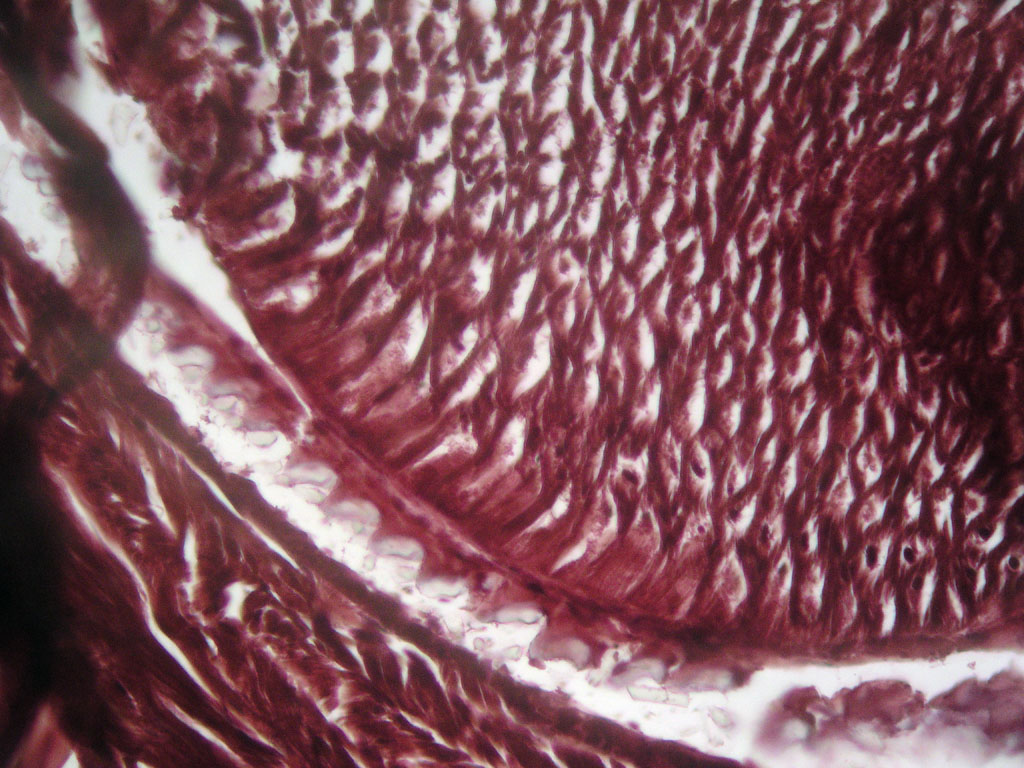 Deroceras laeve - radula, 400×, orcein.